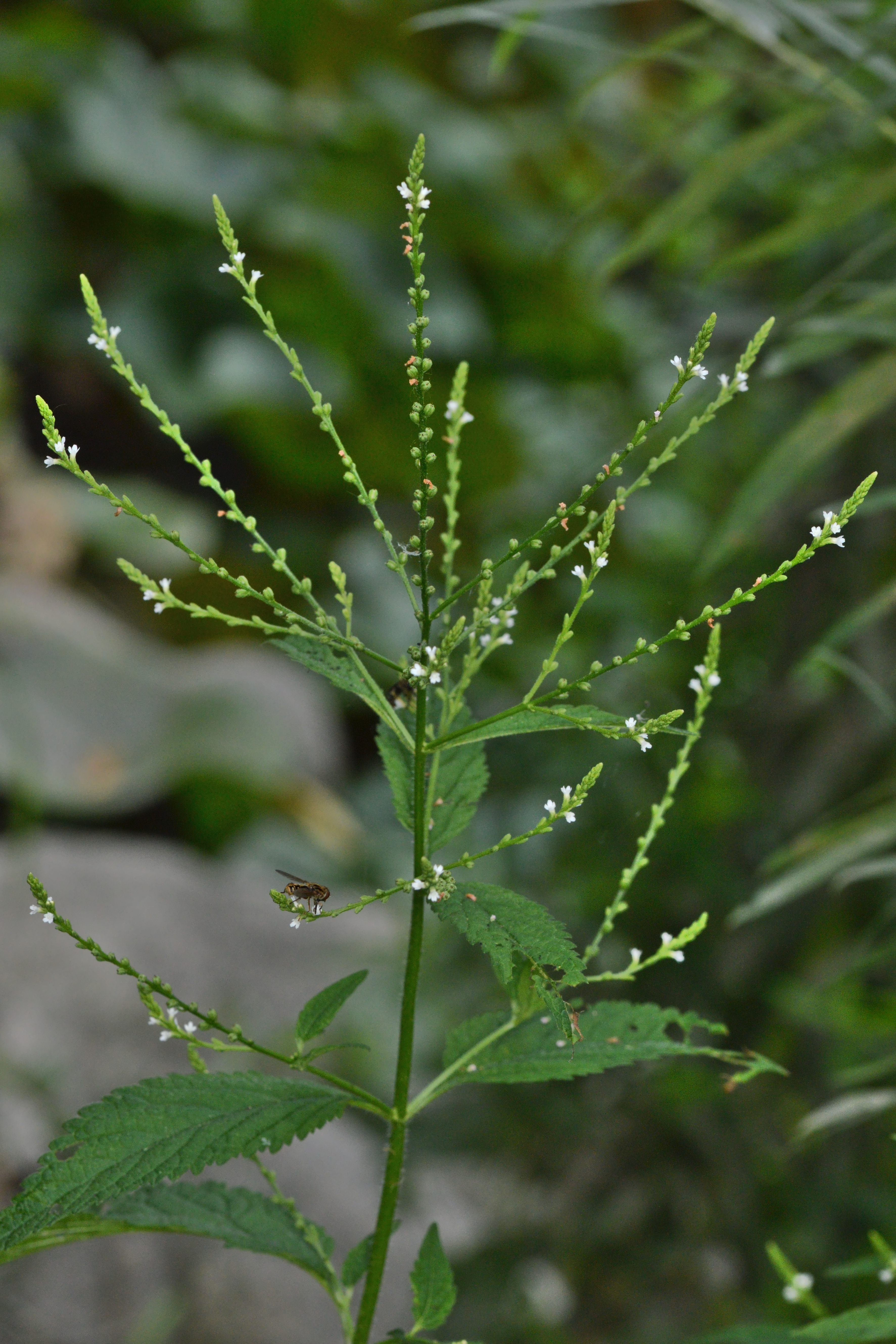 White Vervain (Verbena urticifolia) in Kitchener, Ontario, Canada.